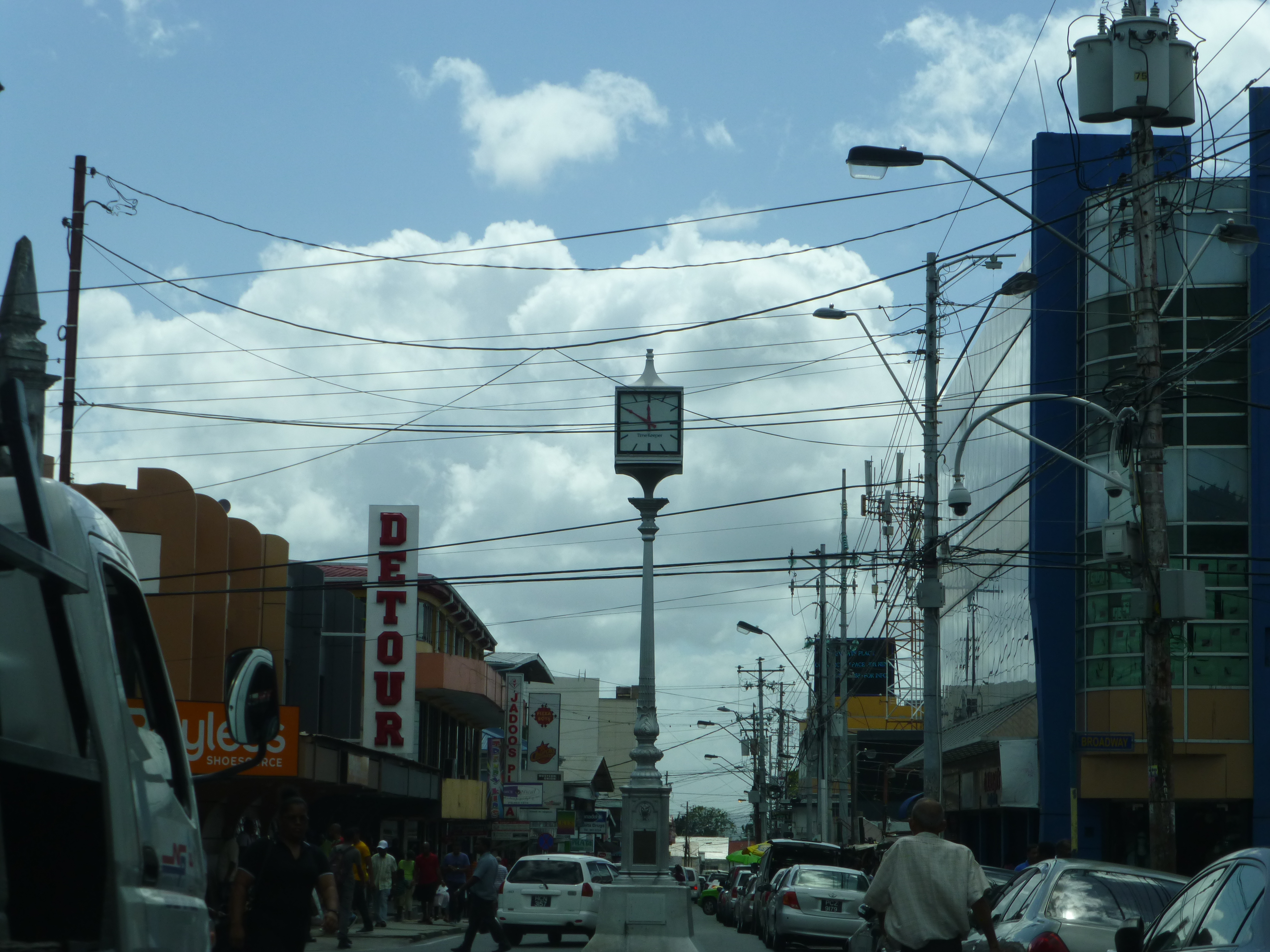 The Dial on intersection Broadway/Queen Street, Arima, Trinidad.